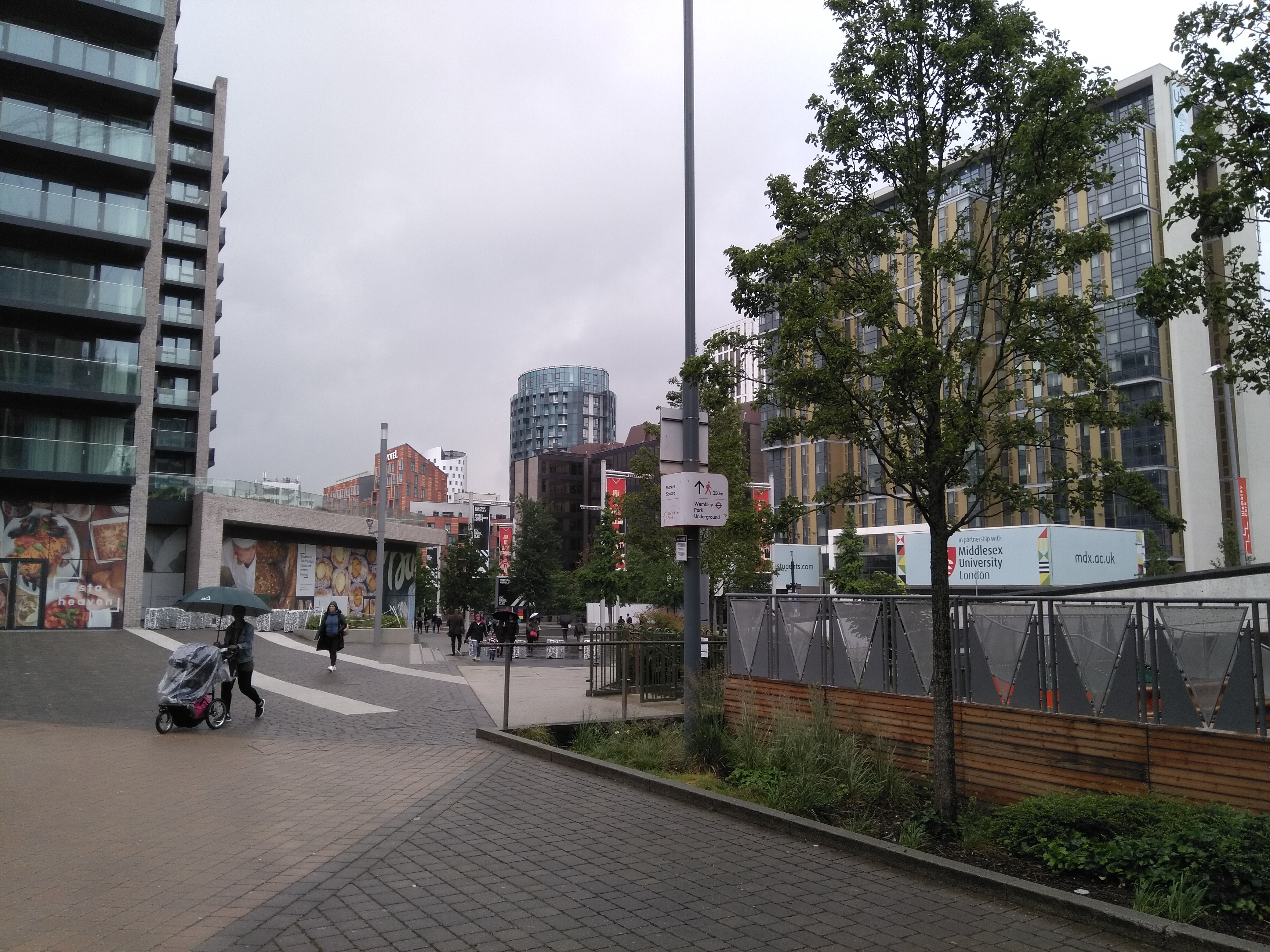 Showing new developments in Olympic Way near Engineers Way in Wembley, England.